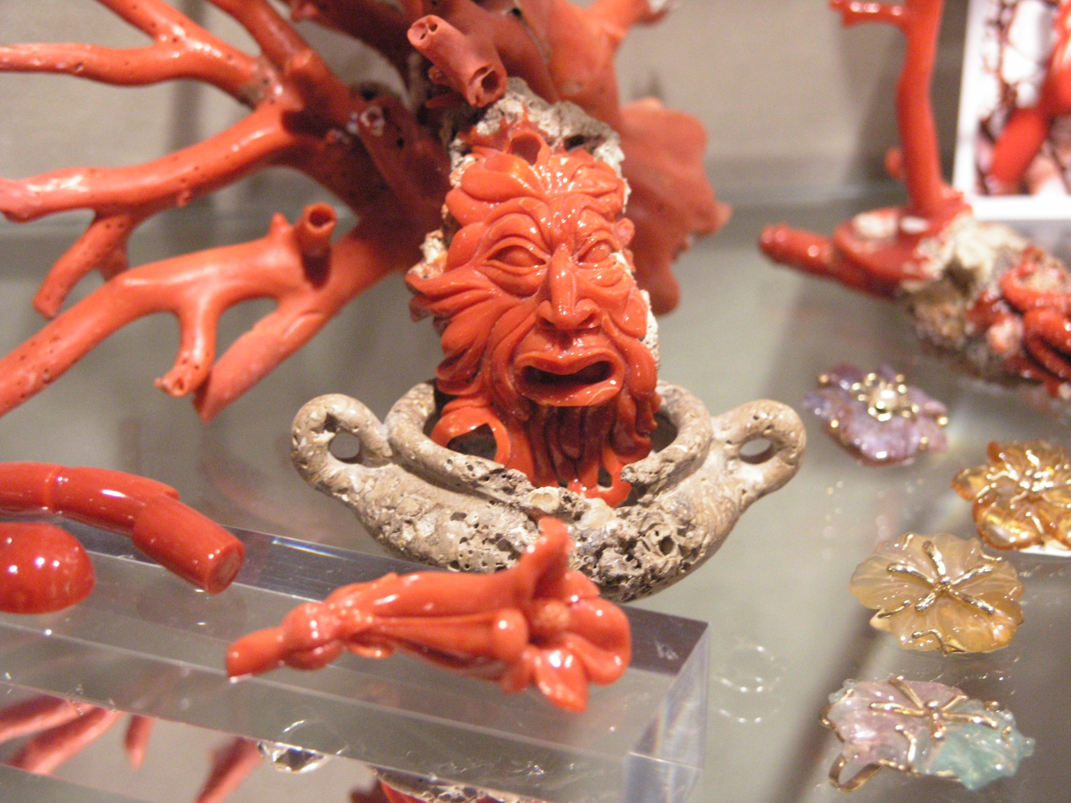 Artistic work red coral - Alghero Sardinia